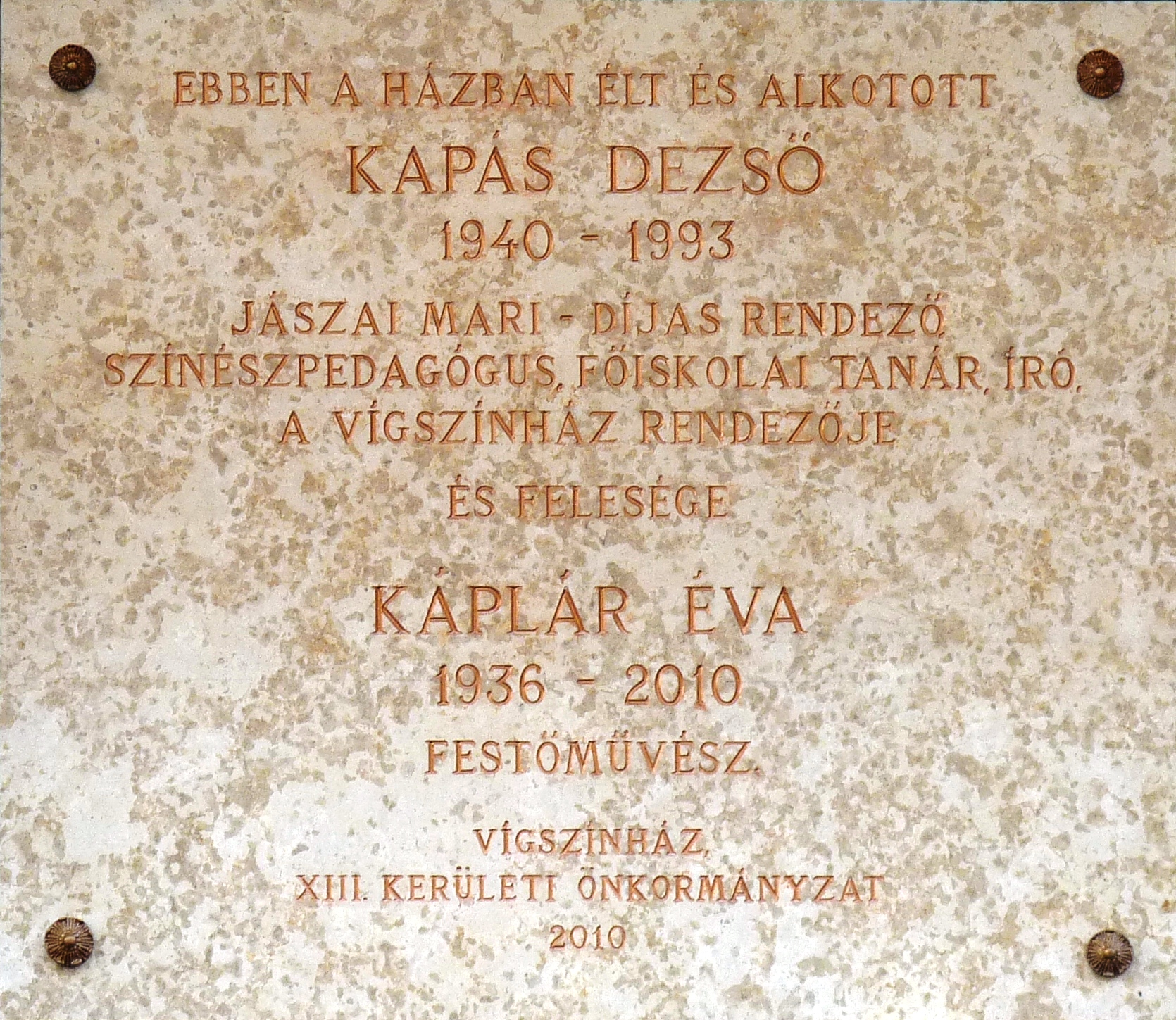 Commemorative plaque to Dezső Kapás (1940–1993) and his wife Éva Káplár (1936–2010) in Budapest District XIII, Budai Nagy Antal Street No 5.